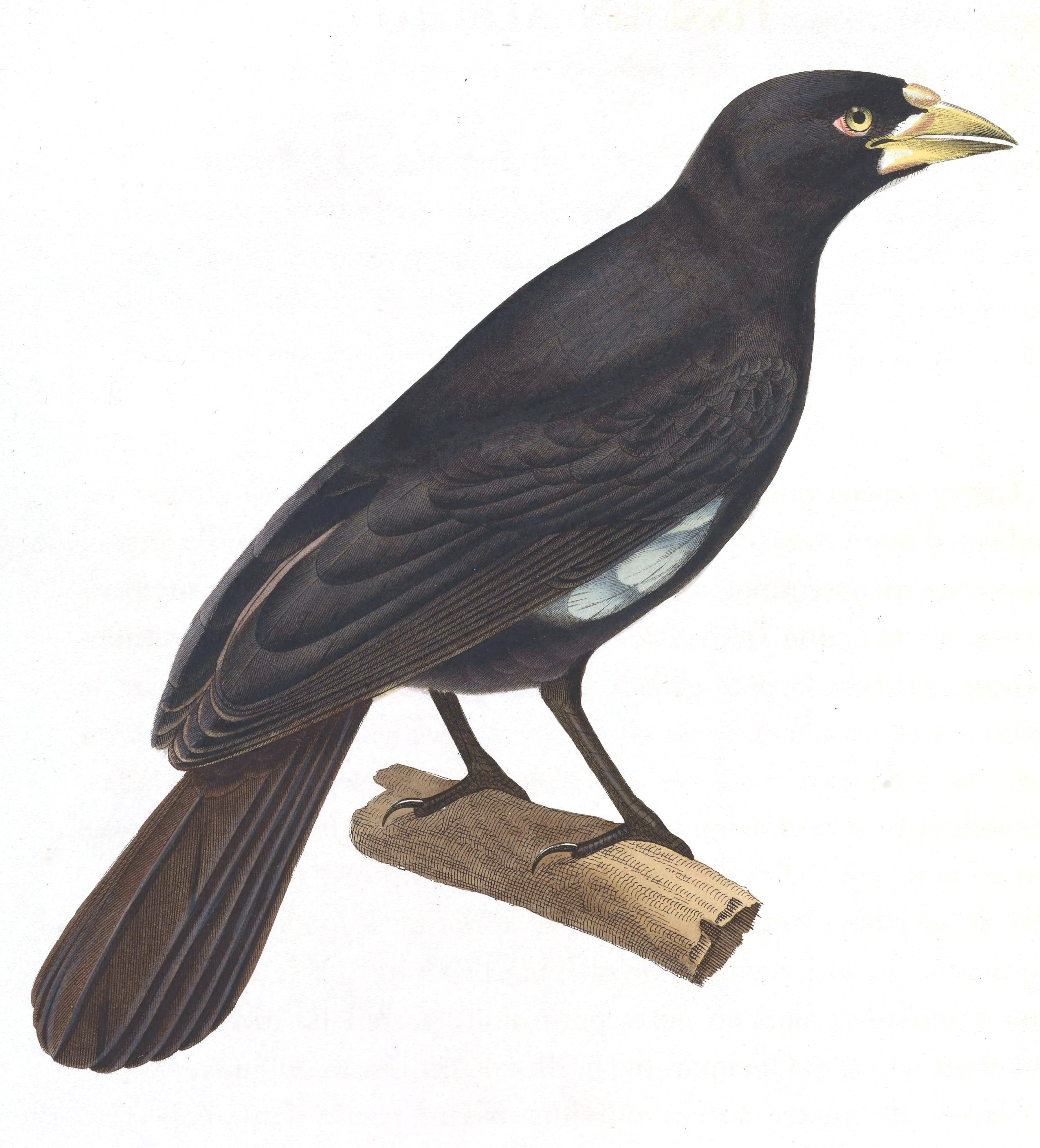 « Textor alecto » = Bubalornis albirostris albirostris (Subspecies of White-billed Buffalo Weaver) - adult